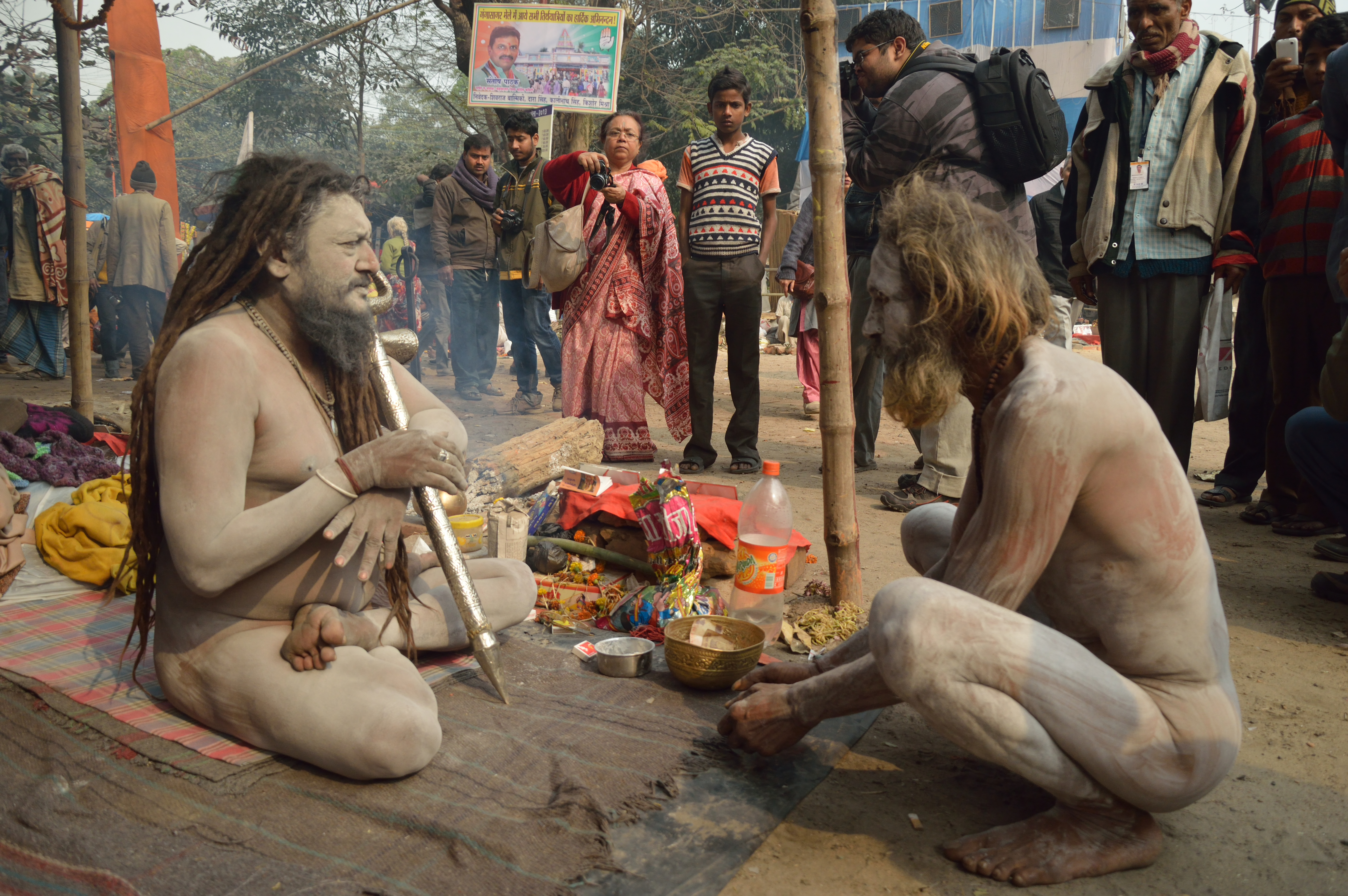 The Hindu Naga or Naked or Digambara or sky-clad Sadhu at the Gangasagar fair transit camp near Outram Ghat in Kolkata.